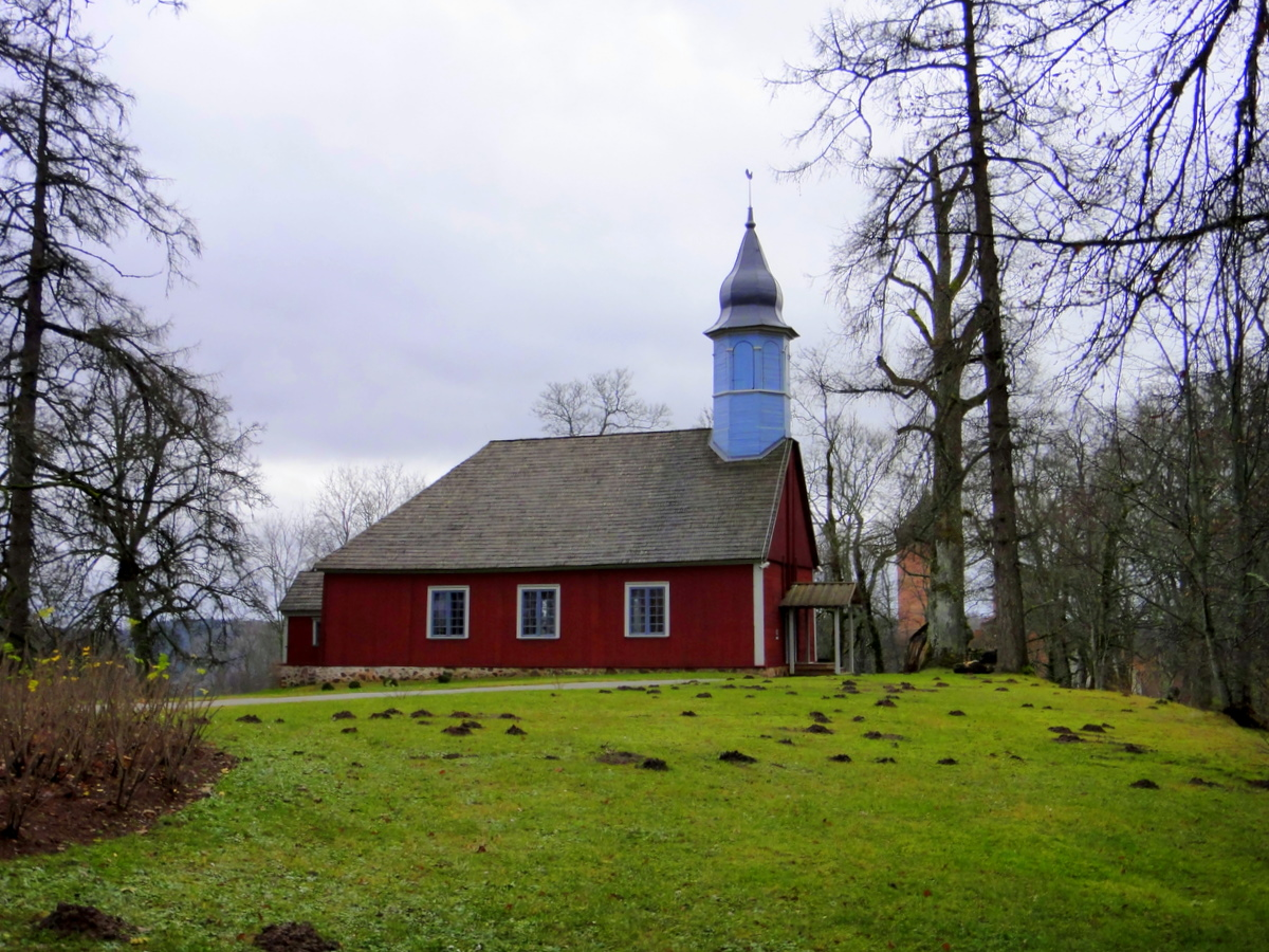 Turaida Lutheran Church, Sigulda, LatviaLatviešu: Turaidas luterāņu baznīca